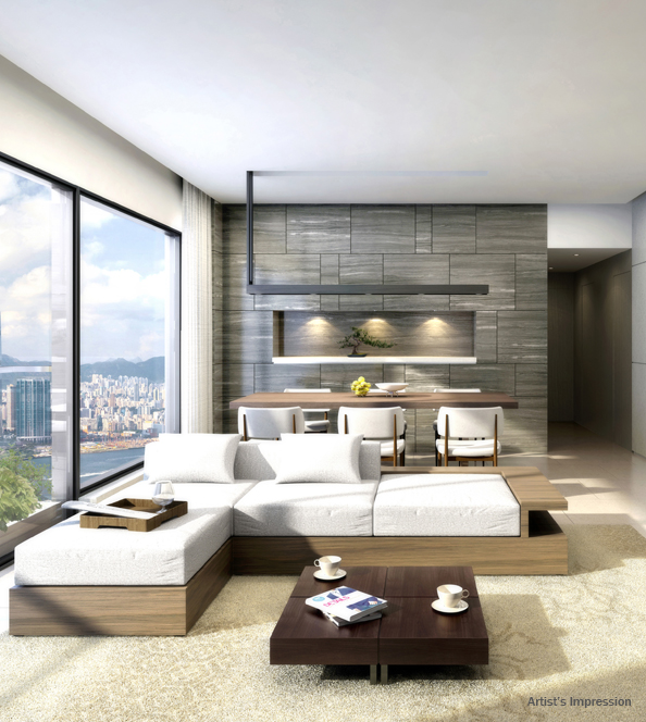 Located on 2A Seymour Road, AZURA is Swire Properties' residential development in Mid-Levels West, a well-established high-end residential district on Hong Kong Island.